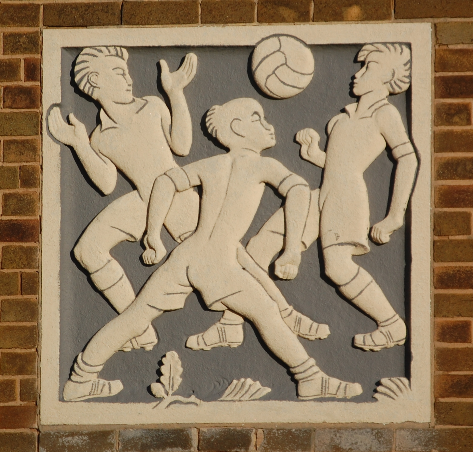 Relief carving at Great Barr School, on Aldridge Road, Great Barr, Birmingham, England, showing boys playing football. An adjacent piece shows girls playing netball.